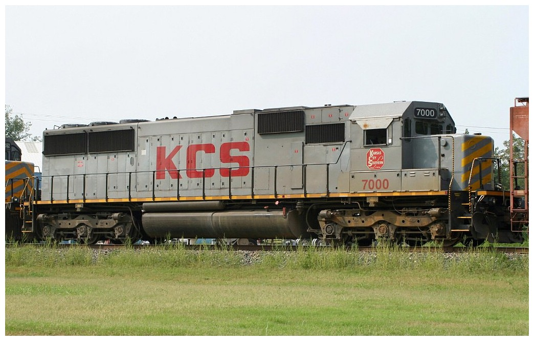 Kansas City Southern Railway 7000, EMD SD50 [1]